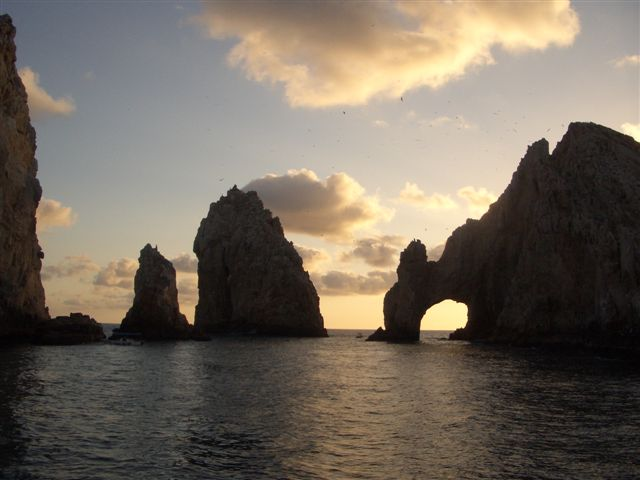 Lands End, Cabo San Lucas, at sunset.